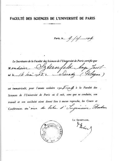 Enrolment certificate of Ari Sternfeld at the Faculty of Science at the Sorbonne in the 1928-1929 academic year